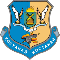 taken from